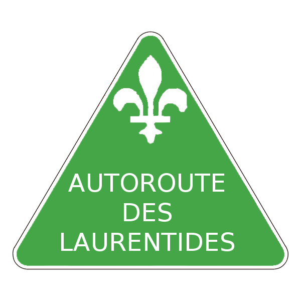 Old shield for the Laurentide autoroute.